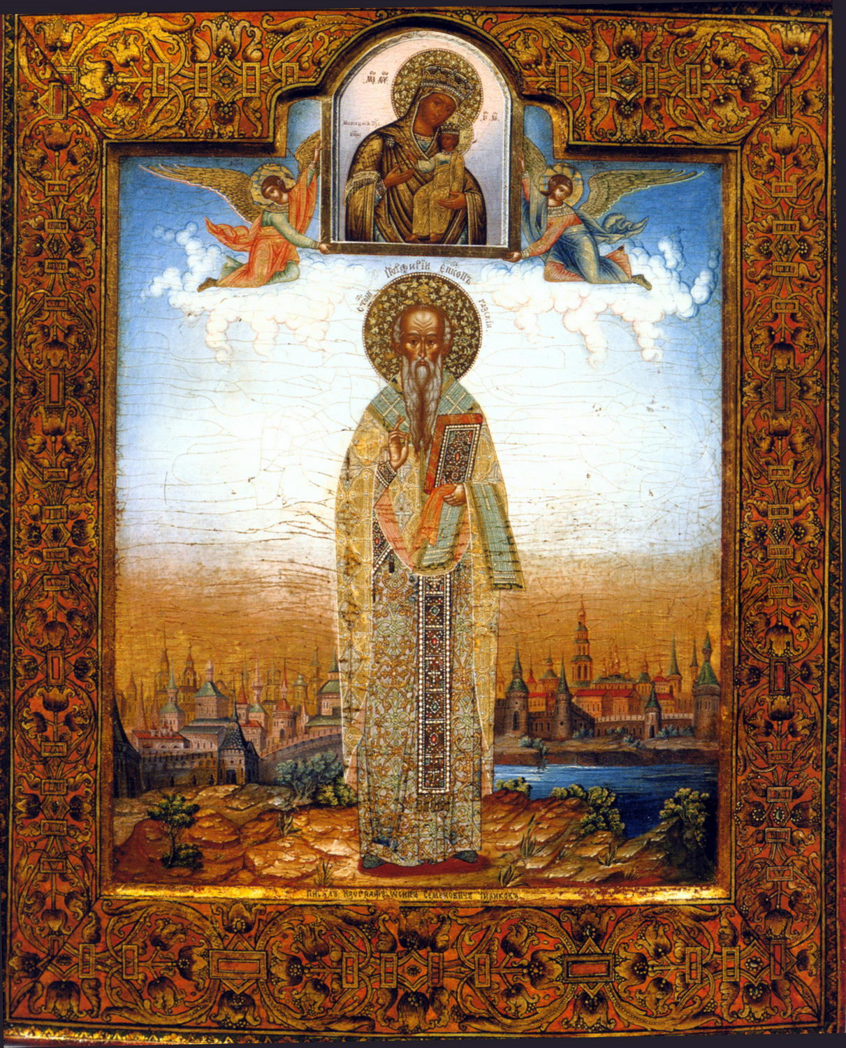 Porphyry of Gaza Icon by Osip Chirikov